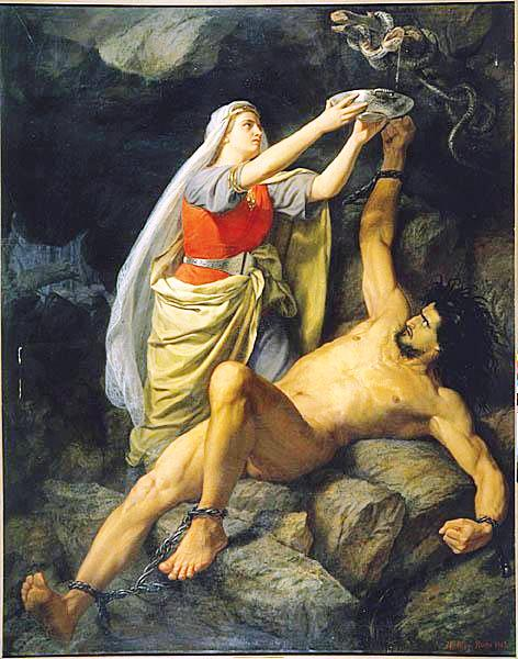 A photographic reproduction of the painting, showing the two mythological figures during Loki's bondage.